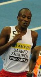 Saif Saaeed during 2010 Aviva Grand Prix, Birmingham